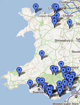 Celtic crosses in Wales.